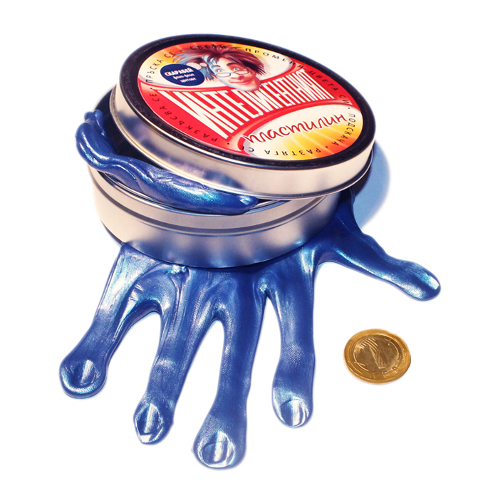 Thinking putty